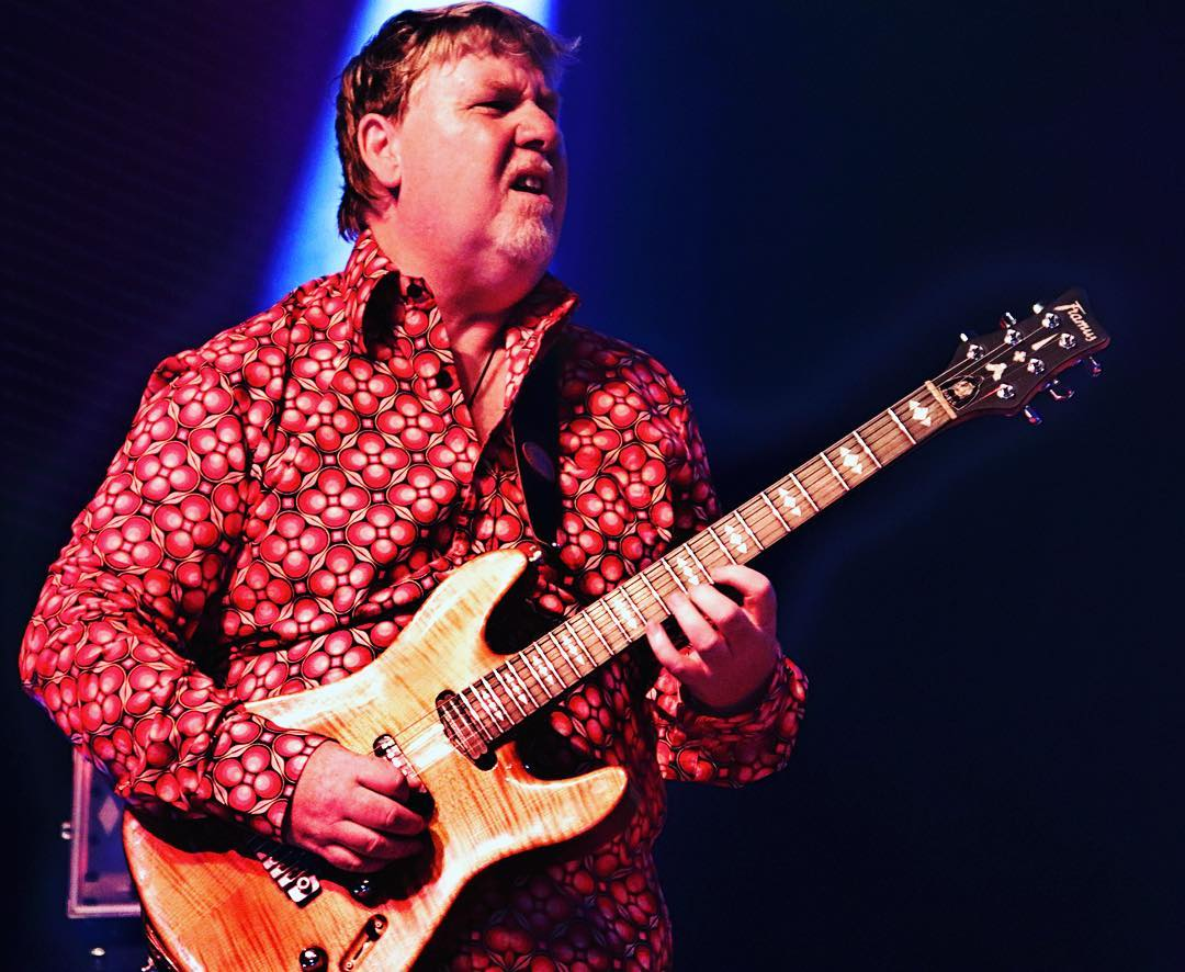 Dirk Edelhoff in concert 2018